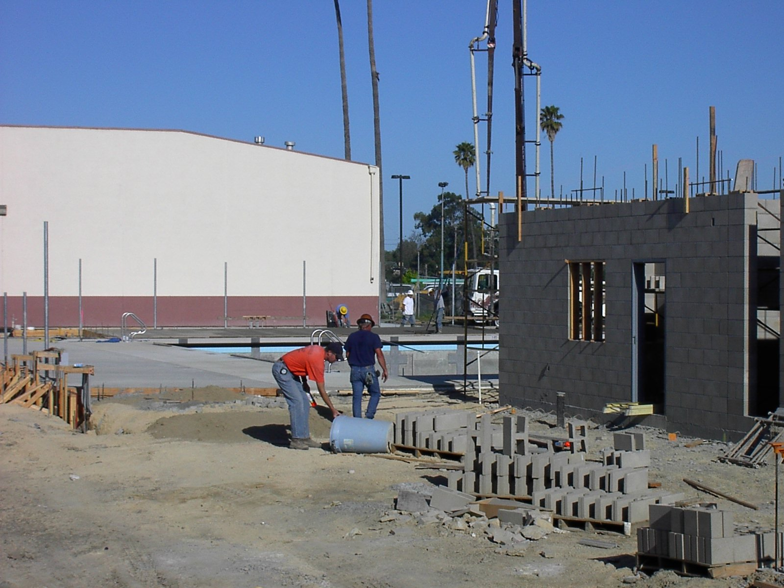 New pool construction at Arroyo Grande High School, in San Luis Obispo County, California. Taken by JT Perreault, June 2006.